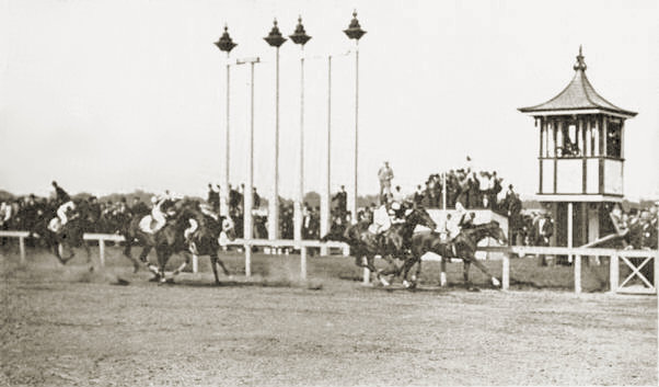 Brooklyn Handicap in 1904. The Picket first, Irish Lad second, Proper third, Hermis fourth and Enigma Burch fifth1904年のブルックリンハンデキャップ。